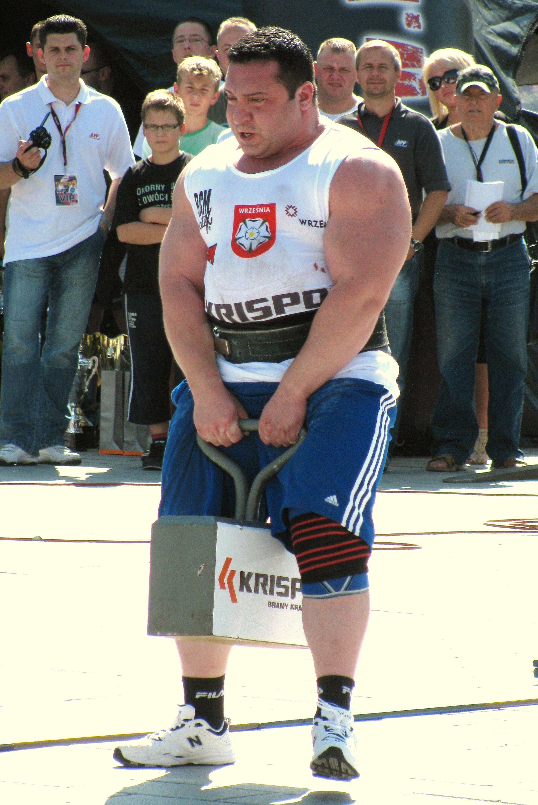 Alex Curletto - a strength athlete from Italy at the Duck Walk.